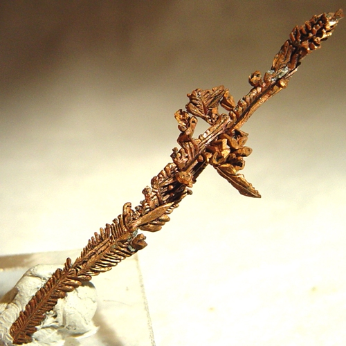 Copper Locality: Itauz Mine, Zhezqazghan Oblysy (Dzezkazgan Oblast'; Dzhezkazgan Oblast'; Djezkazgan Oblast'; Jezkazgan Oblast'), Kazakhstan (Locality at ) A slender, elegant copper specimen crystallized from top to bottom, combining the "herringbone" style crystallization with spinel twins! 5.5 x 1.5 x 0.3 cm This Photo was Photo of the Day - 26th Apr 2006